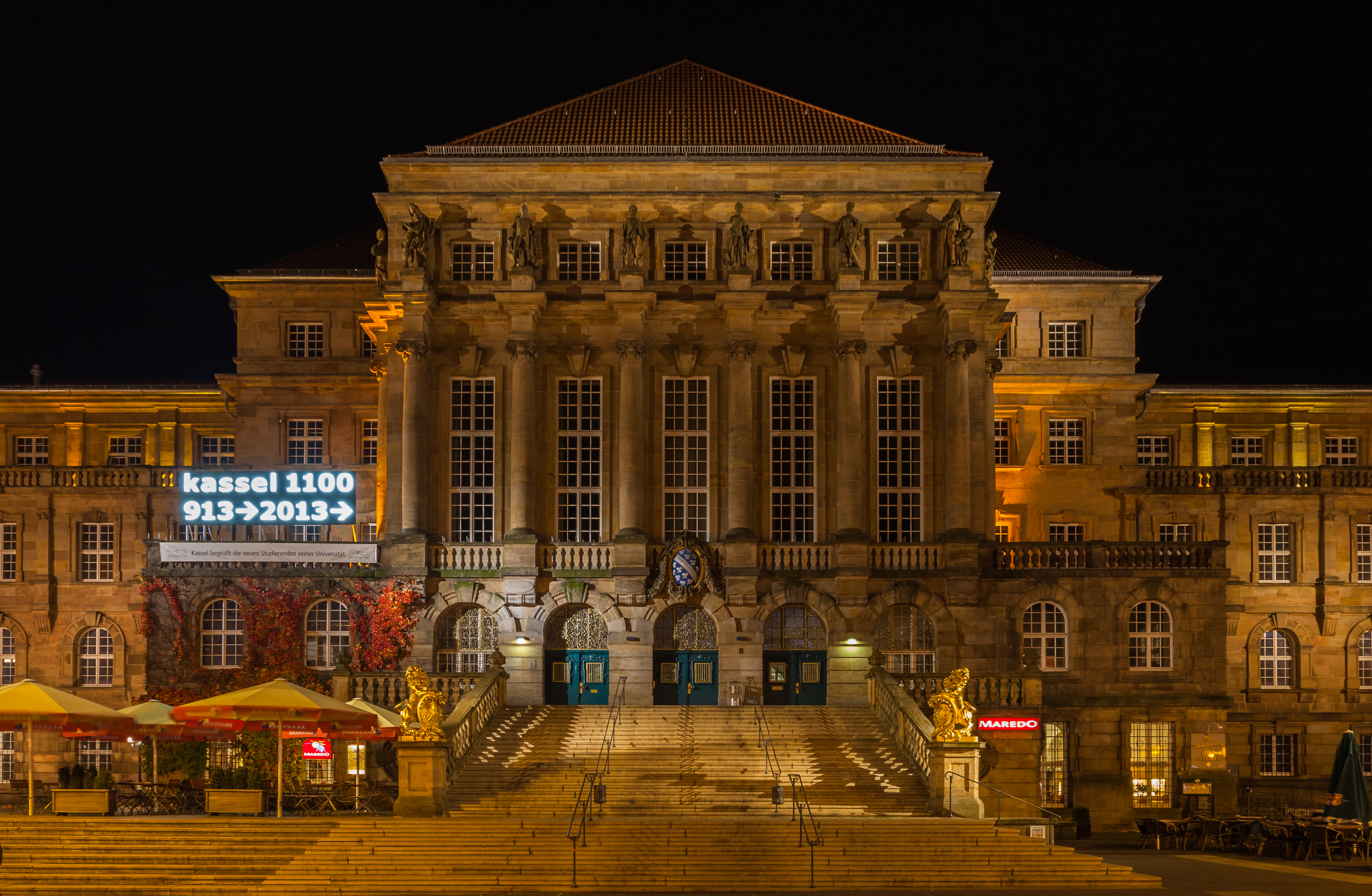 Town Hall, Kassel, Germany